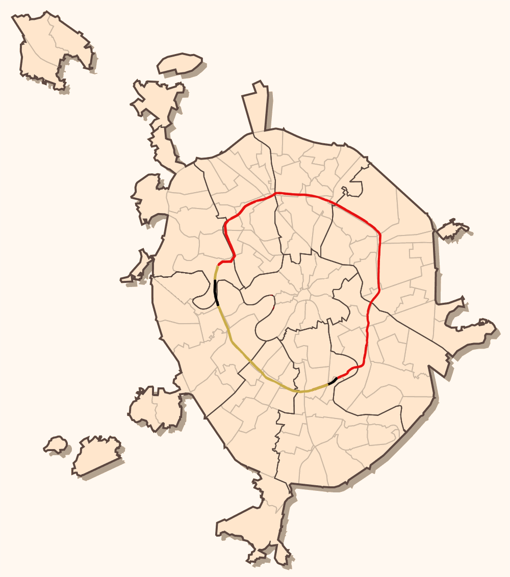 4 transportnoye kol'tso of Moscow